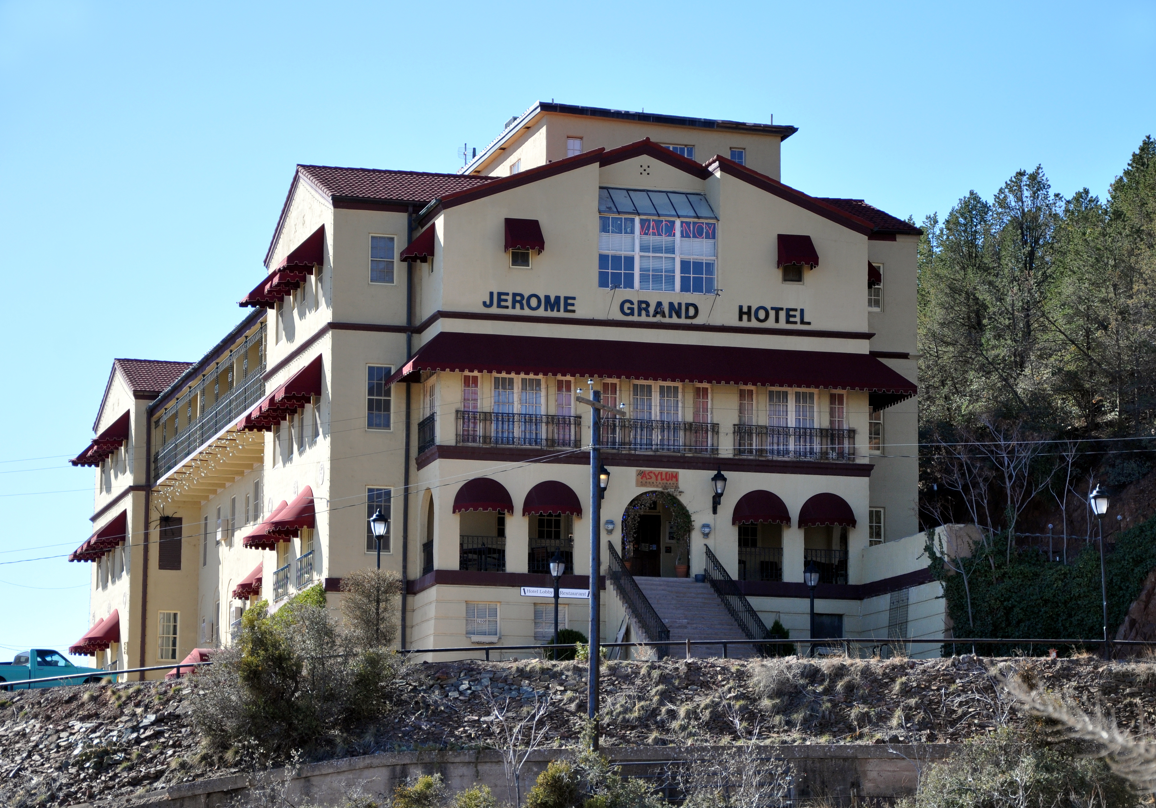 Jerome Grand Hotel — in Jerome, Yavapai County, Arizona. Originally it opened as a hospital in 1927, built by the United Verde Copper Company. It is part of the Jerome Historic District, a National Historic Landmark.